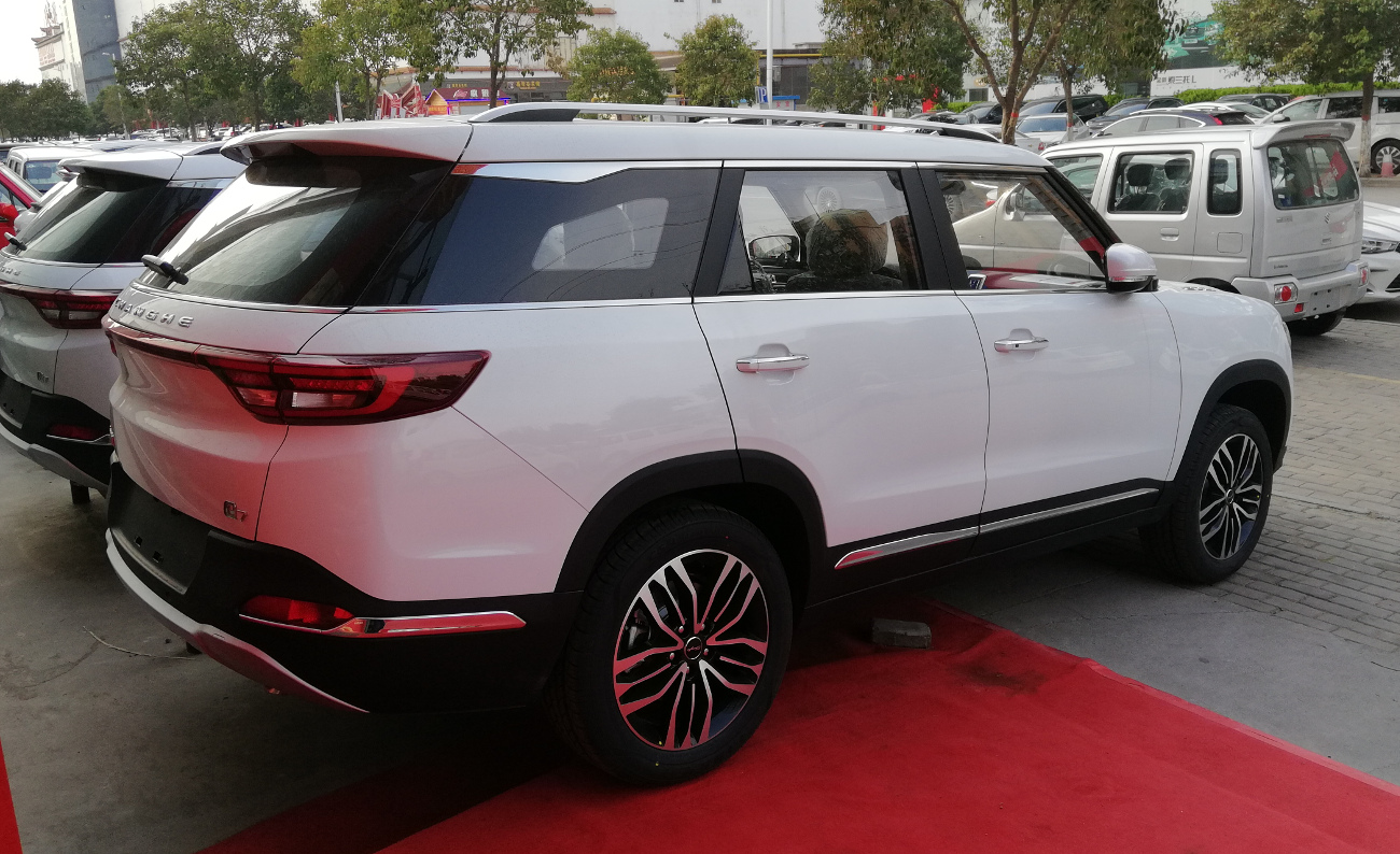 Changhe Q7 photographed in Zhengzhou, Henan province, China.